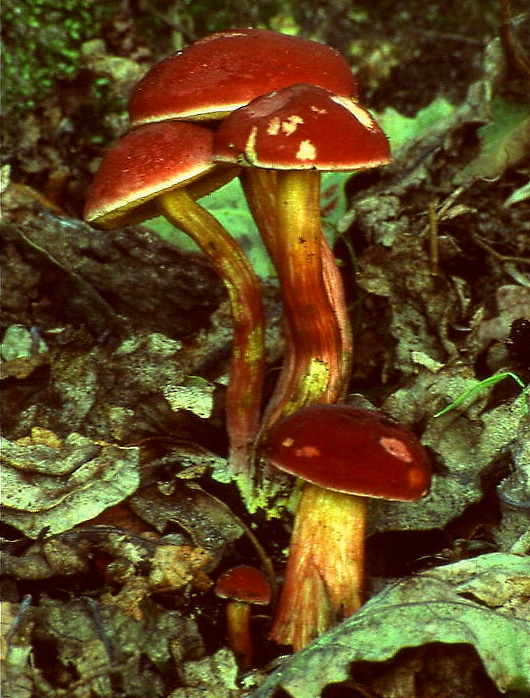 The source of this image is the photographer Frank Gardiner aka Zonda Grattus, who is the sole owner and copyright holder of this photograph and agrees to publish it under the Own Work, Creative Commons Attribution 3.0 License.